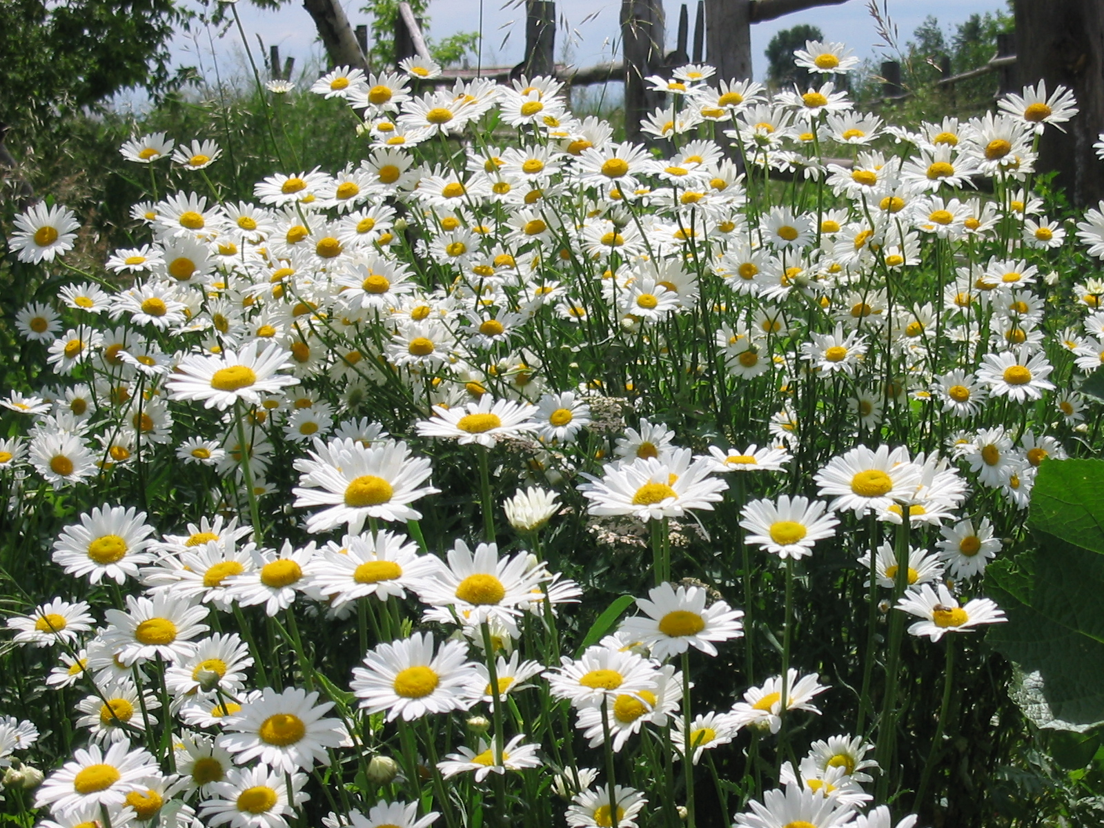 Daisies